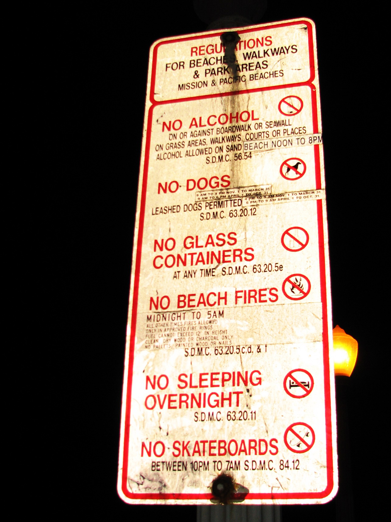 REGULATIONS at MISSION BEACH, SAN DIEGO, CALIFORNIA (134 Words, 604 characters) REGULATIONS For beaches, walkways & park areas Mission & Pacific beaches NO ALCOHOL On or against boardwalk or seawall. On grass areas, walkways, courts or places alcohol allowed on sand beach :noon to 8PM S.D.M.C. 56.54 NO DOGS 9AM to 4PM NOV 1 to MARCH 31 9AM to 6PM APRIL 1 to OCT 31 Leashed dogs permitted 4PM to 9AM NOV 1 to MARCH 31, 6PM to 9AM APRIL 1 to OCT 31 S.D.M.C. 63.20.12 NO GLASS CONTAINERS At any time S.D.M.C. 63.20.5e NO BEACH FIRES Midnight to 5AM All other times fires allowed only in approved fire rings Fuel cannot exceed 12 in height Clean dry wood or charcoal only No pallets, painted wood or nails S.D.M.C. 63.20.5c,d, & f NO SLEEPING OVERNIGHT S.D.M.C. 63.20.11 NO SKATEBOARDS Between 10PM to 7AM S.D.M.C. 84.12